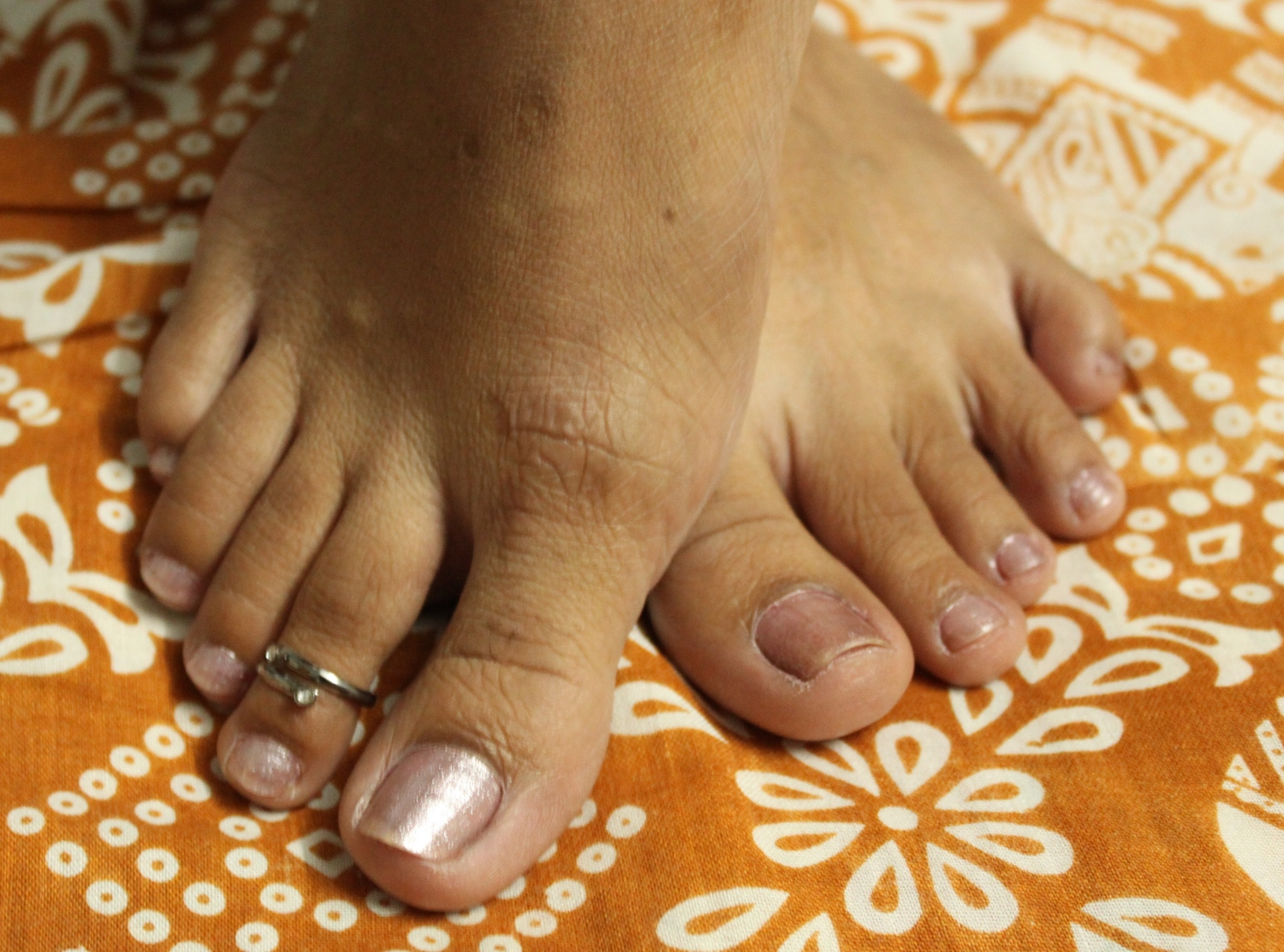 Minchi